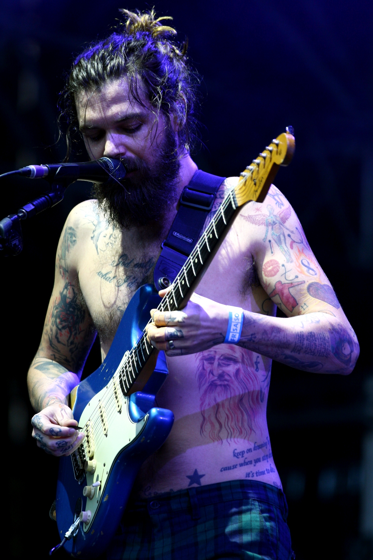 Simon Neil, singer of Biffy Clyro, Taubertal Festival 2014. Festivalsommer This photo was created with the support of donations to Wikimedia Deutschland in the context of the CPB project "Festival Summer".